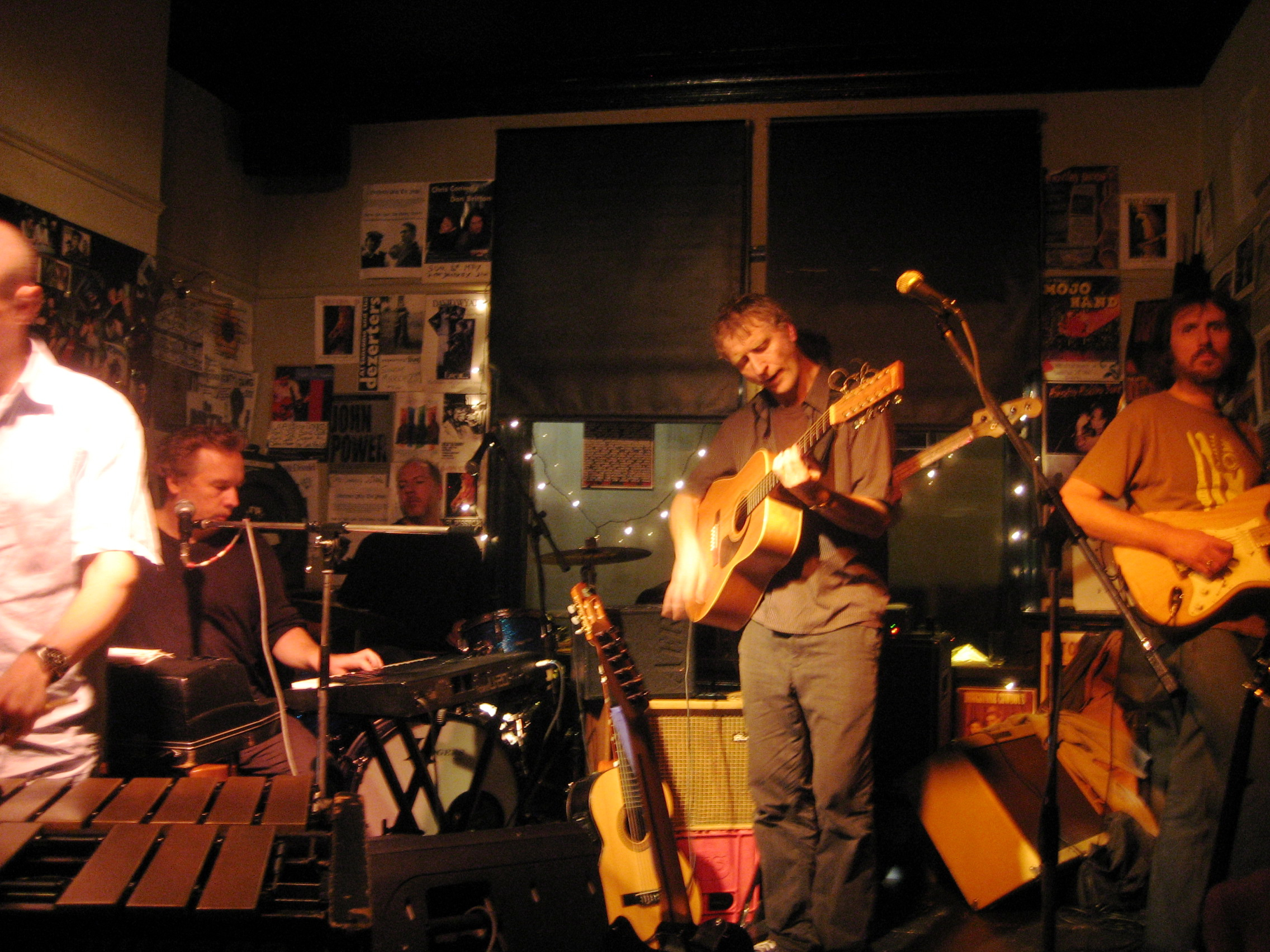 At the Donkey.